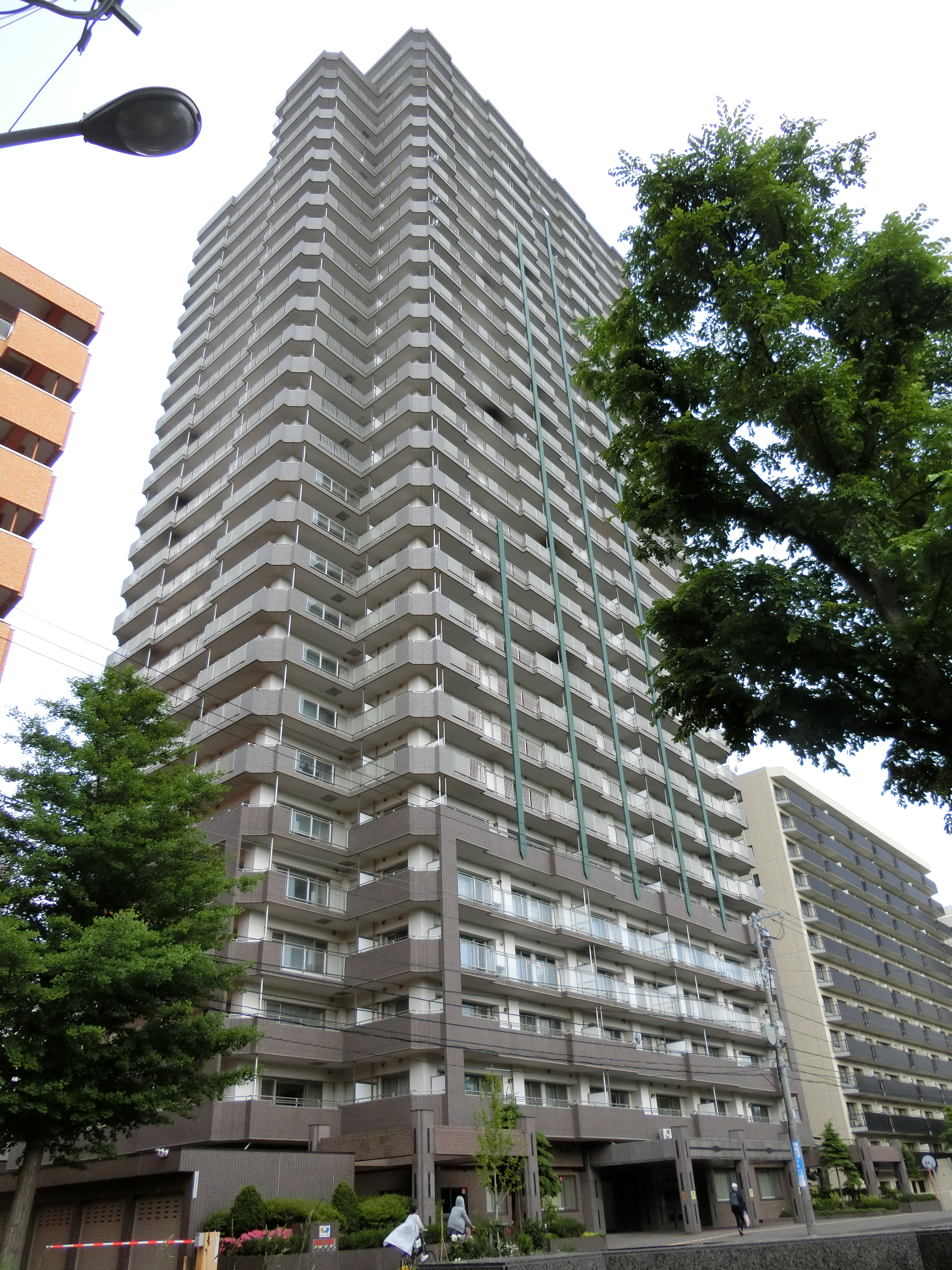 THE TOWER Nakajima Park located in South 12 West 1, South Ward, Sapporo, Hokkaido